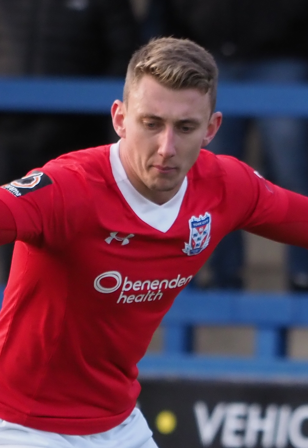 David Ferguson playing for York City against AFC Telford United at the New Bucks Head, Telford on 27 October 2018